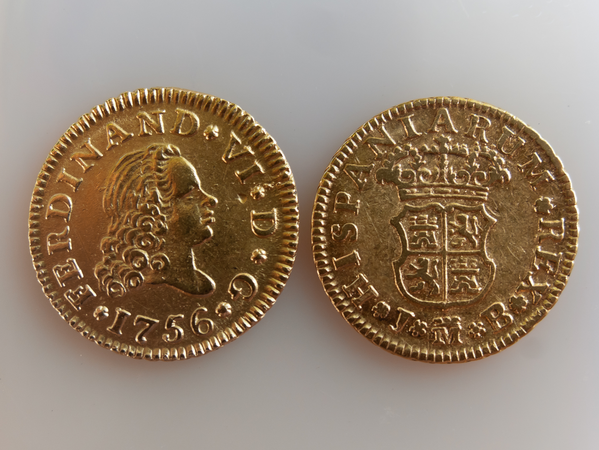 Coin. Spain. 1756. "Hispaniarum rex". "Ferdinand VI".